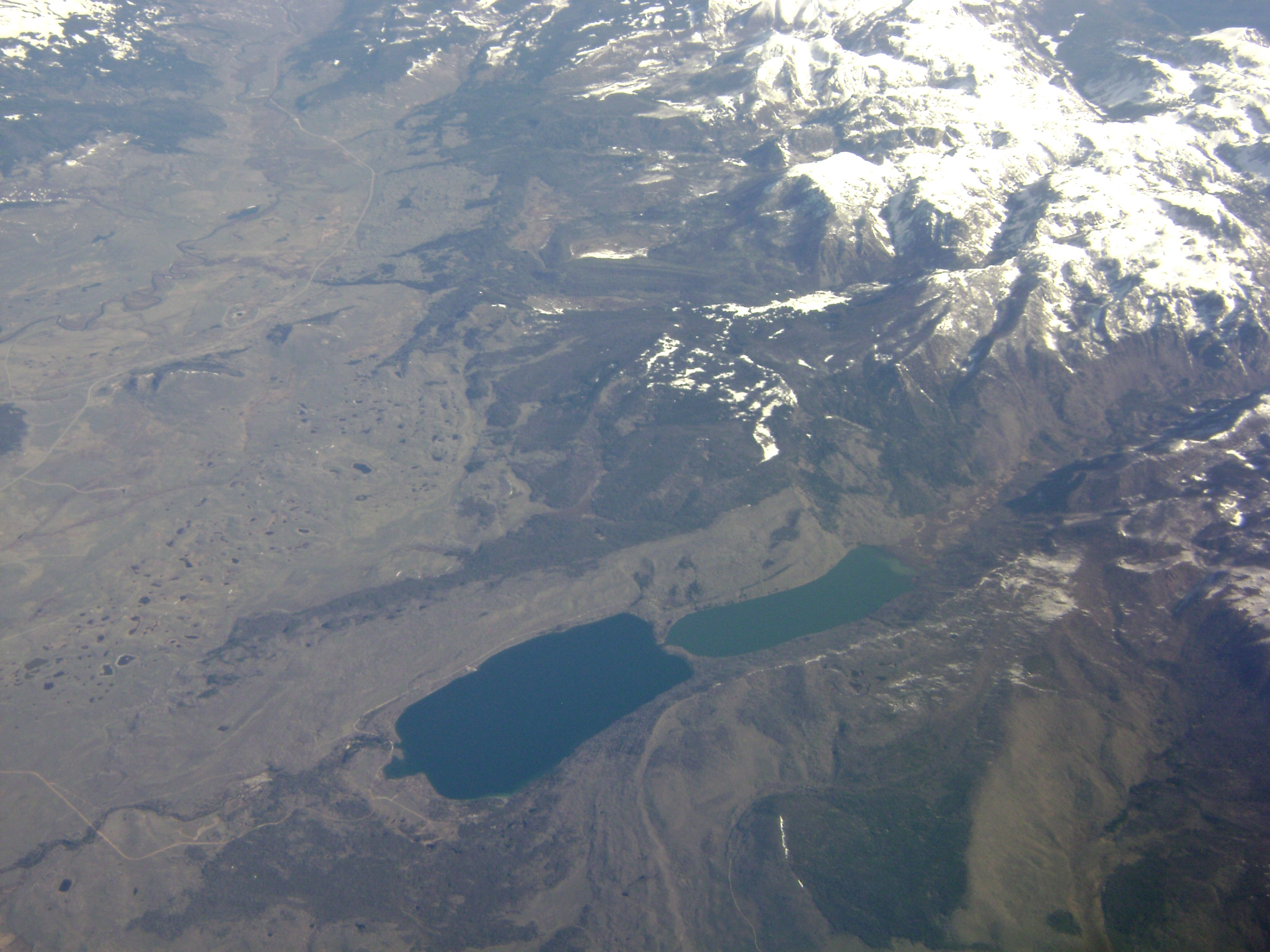 The New Fork Lakes of the New Fork River are seen at the base of the Wind River Range in Wyoming, USA on May 7th, 2012. The upper Green River can also be seen in the top left corner of the image. Photo was taken at an altitude of 38,000 feet during a transcontinental commercial flight from New York City (JFK) to San Francisco (SFO).